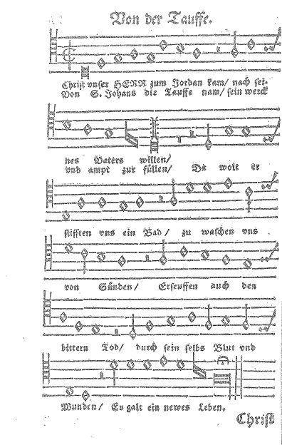 Christ unser Herr zum Jordan kam from Luther's hymnbook, Bresslau 1577